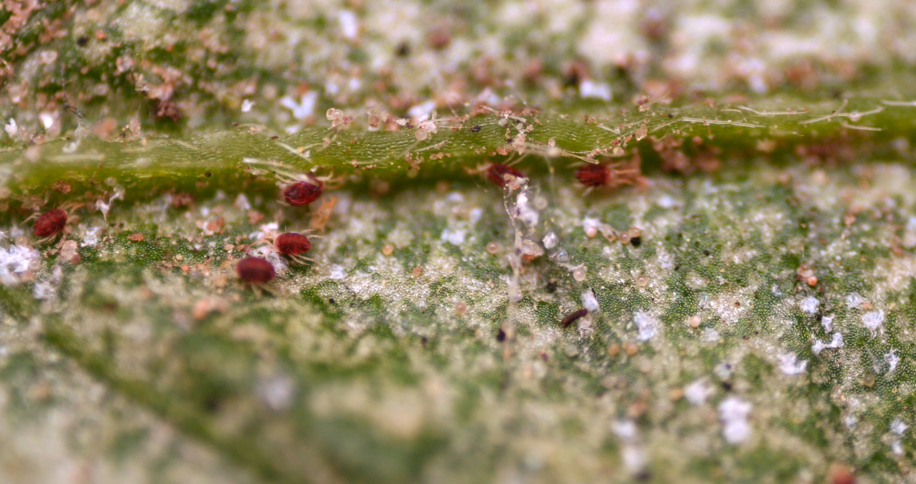 It's an infestation at least a week old. It shows eggs and adults. light patches because of their feeding are easy to see. There are sand grains stuck on the underside that withstood washing from a hose, the mites might help repel water.